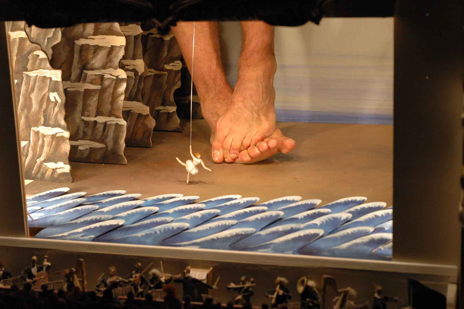 Polifem's death